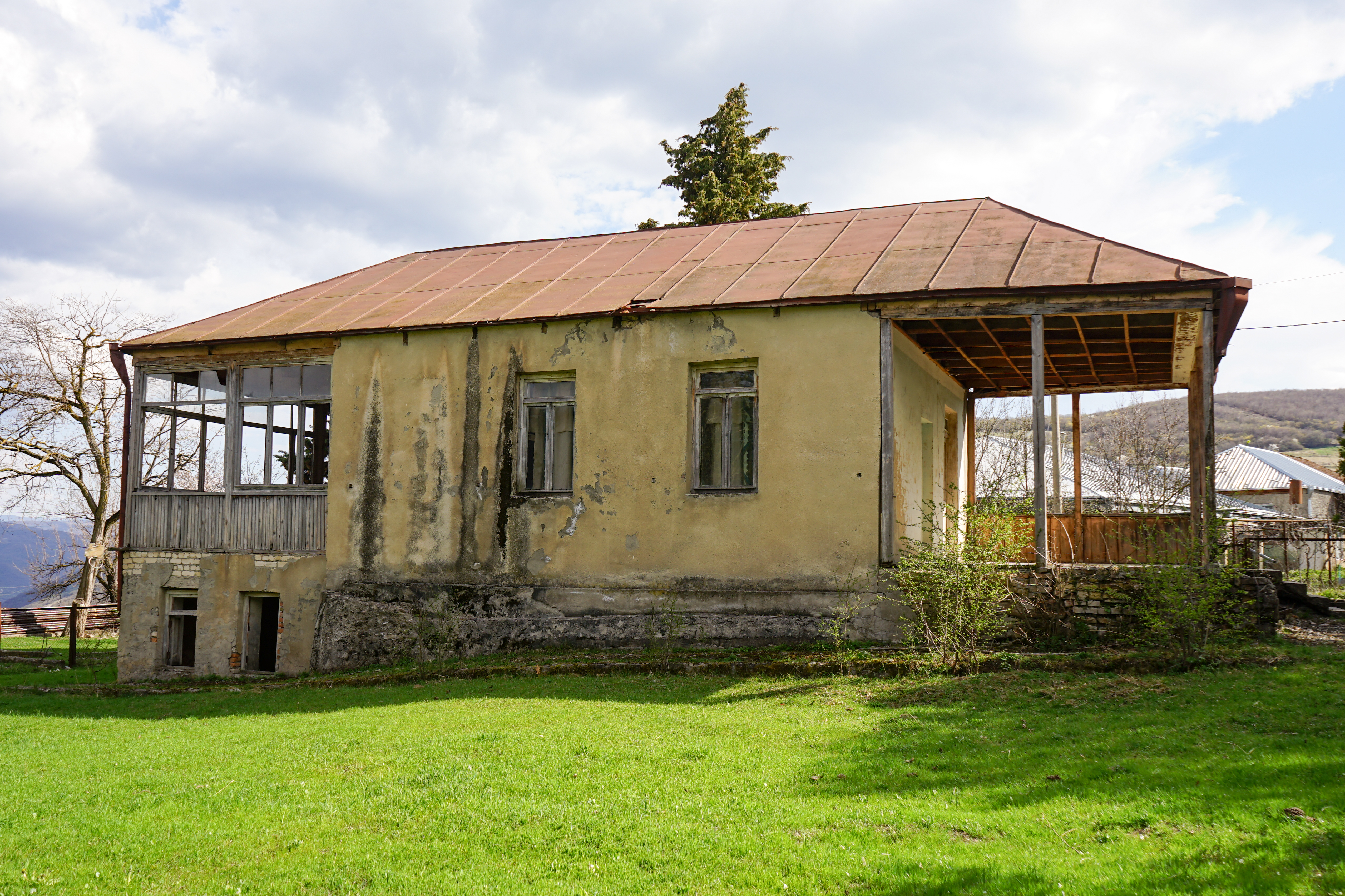 House-museum of Georgian writer Daniel Chonkadze in the village of Kvavili, Dusheti Municipality, Georgia